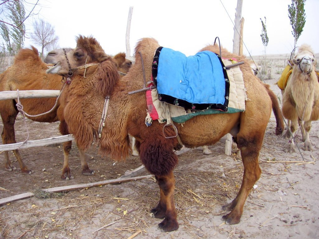 Camels in a little village close to Taklamakan desert near Yarkand, Autonomous Region of Xinjiang, China.